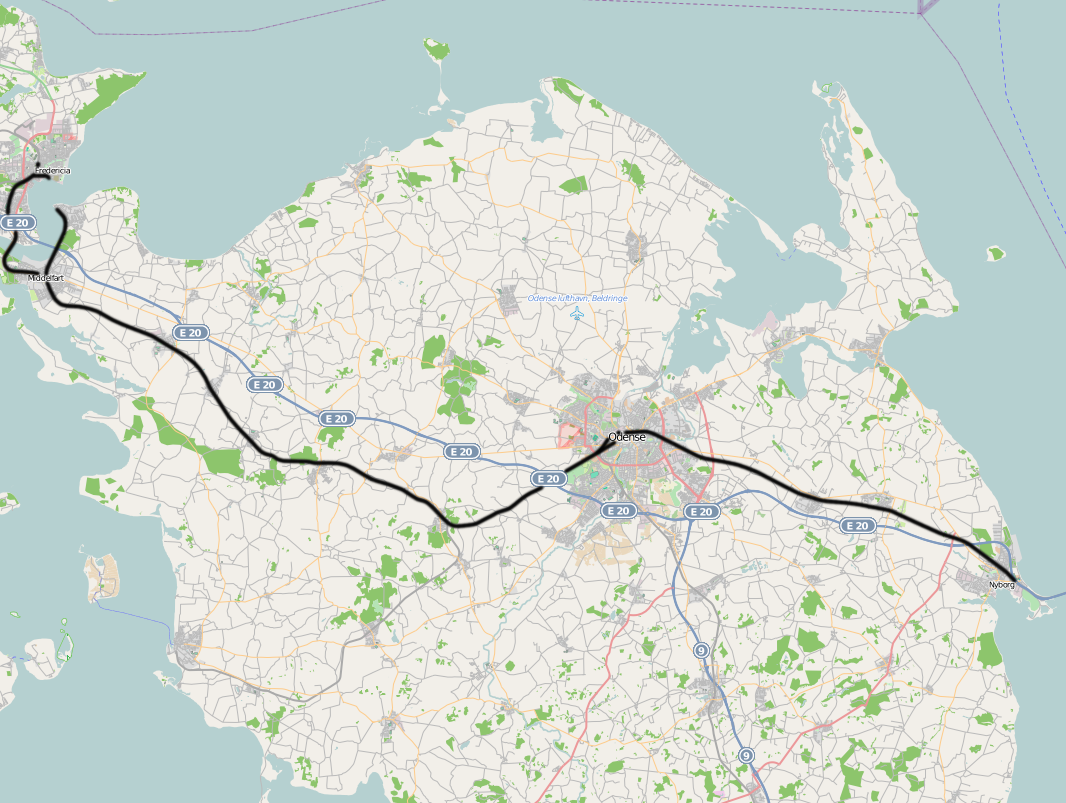 Railway line Nyborg - Fredericia